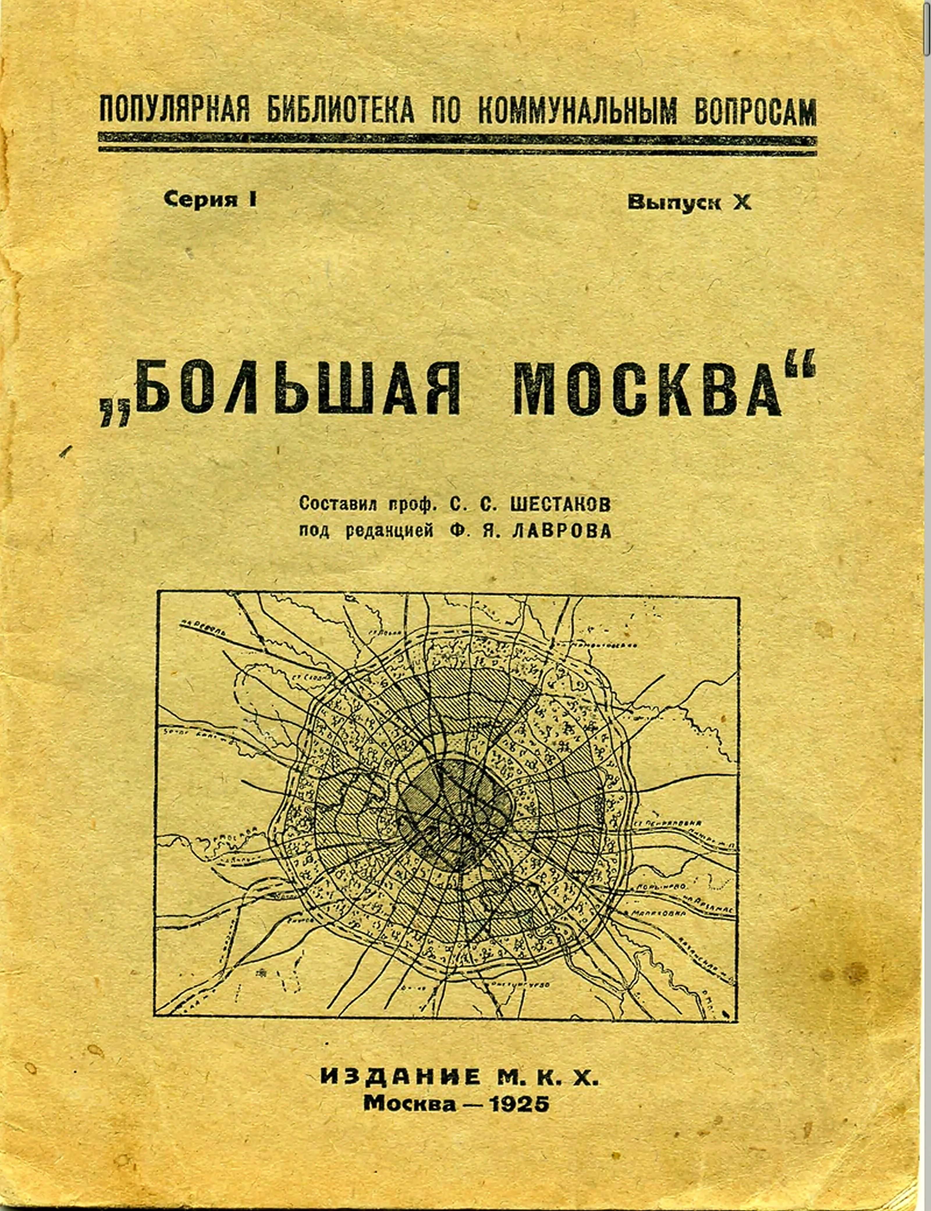 The title page of the book S. S. Shestakova "Big Moscow".